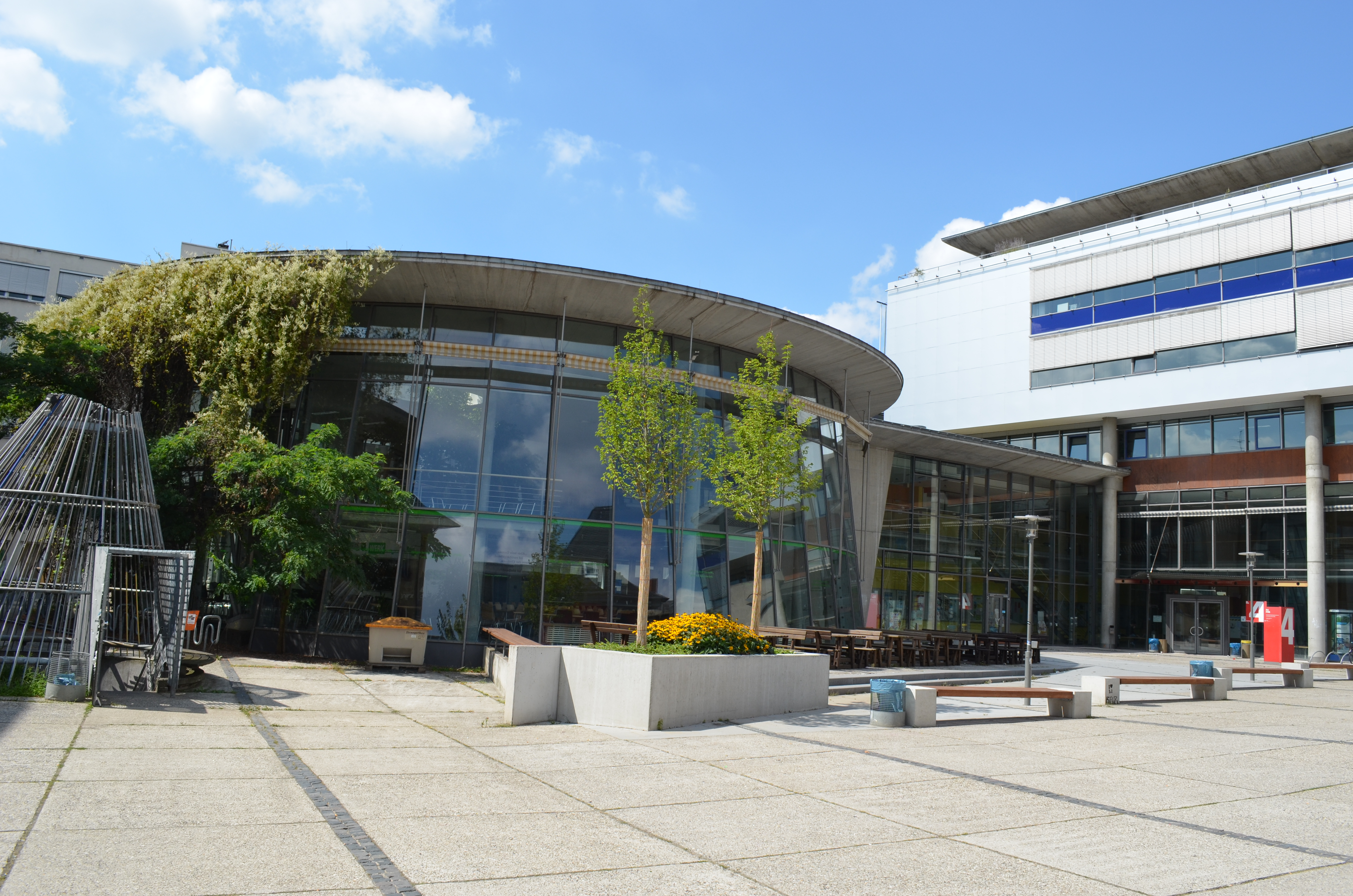 Fachhochschule Frankfurt am Main (FH FFM) - University of Applied Sciences: Building 4. On the left part is the canteen (Mensa).